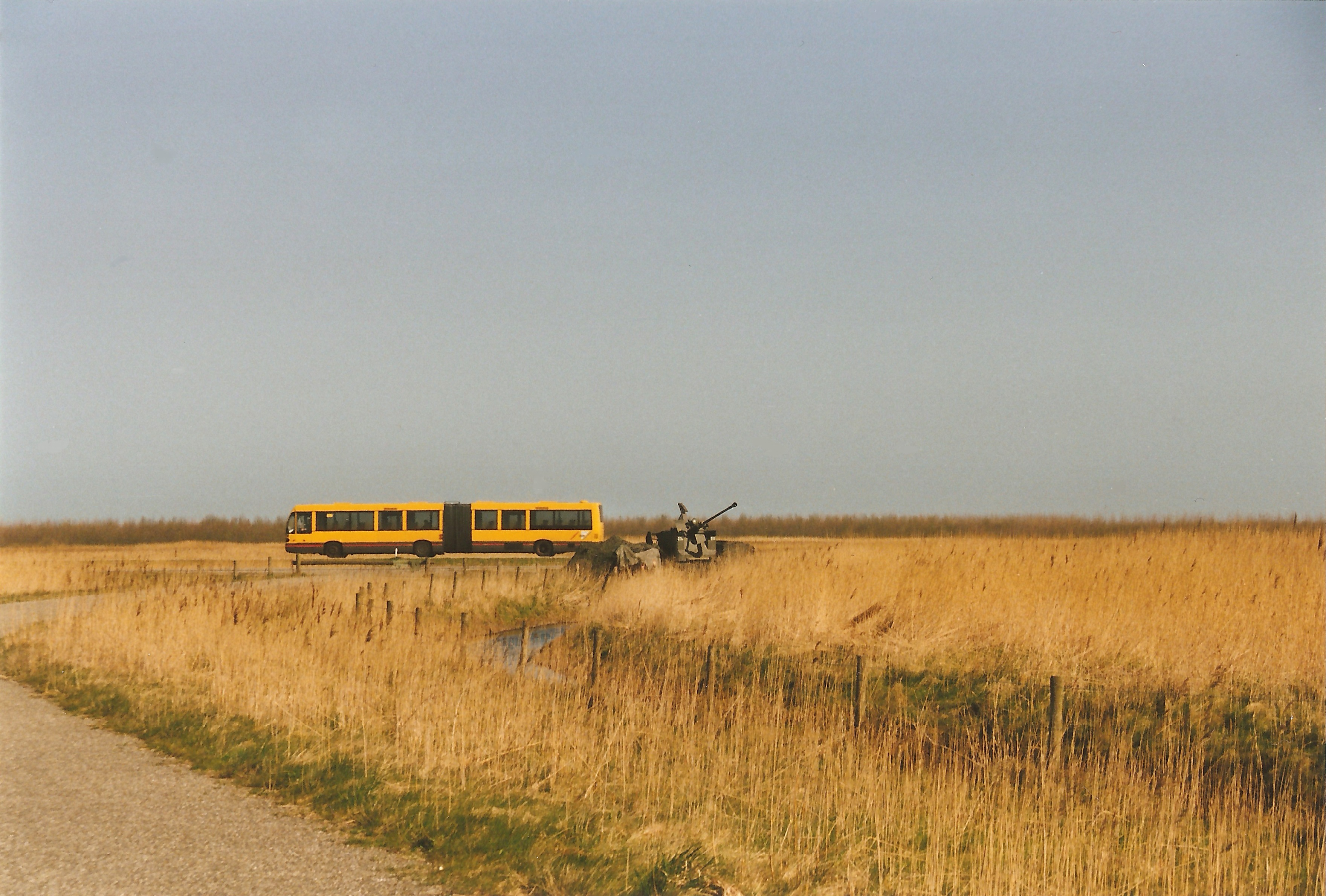 A Bofors 40mm/L70 gun from 105 Light anti aircraft artillery battery in the field in the Marnewaard, Groningen, The Netherlands. Picture taken during an excercise in april 1995.